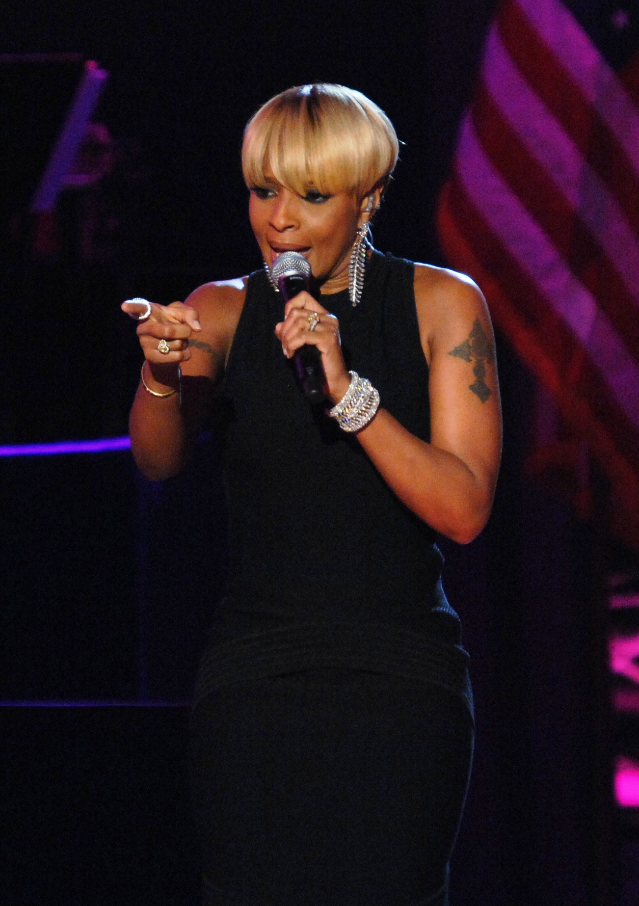 Mary J. Blige performs at the Neighborhood Ball in downtown Washington, D.C.